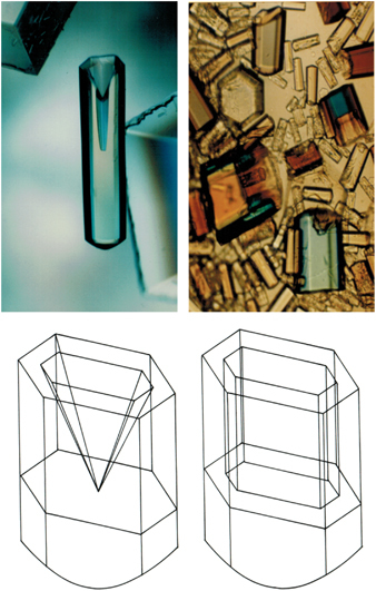 Top right is a typical hexagonal crystal of the protein canavalin grown on Earth, and equivalent crystals grown in ug on IML-2. The distinctive cusp in the Earth-grown crystal becomes a hexagonal lumen within the prismatic crystal grown in space. This is shown schematically for each below. The alteration in lumen or cusp morphology is a direct consequence of nutrient depletion in μg at the most rapidly growing face of the crystals and it illustrates the effect of the concentration gradient that persists in space. IML-2, International Microgravity Laboratory-2.